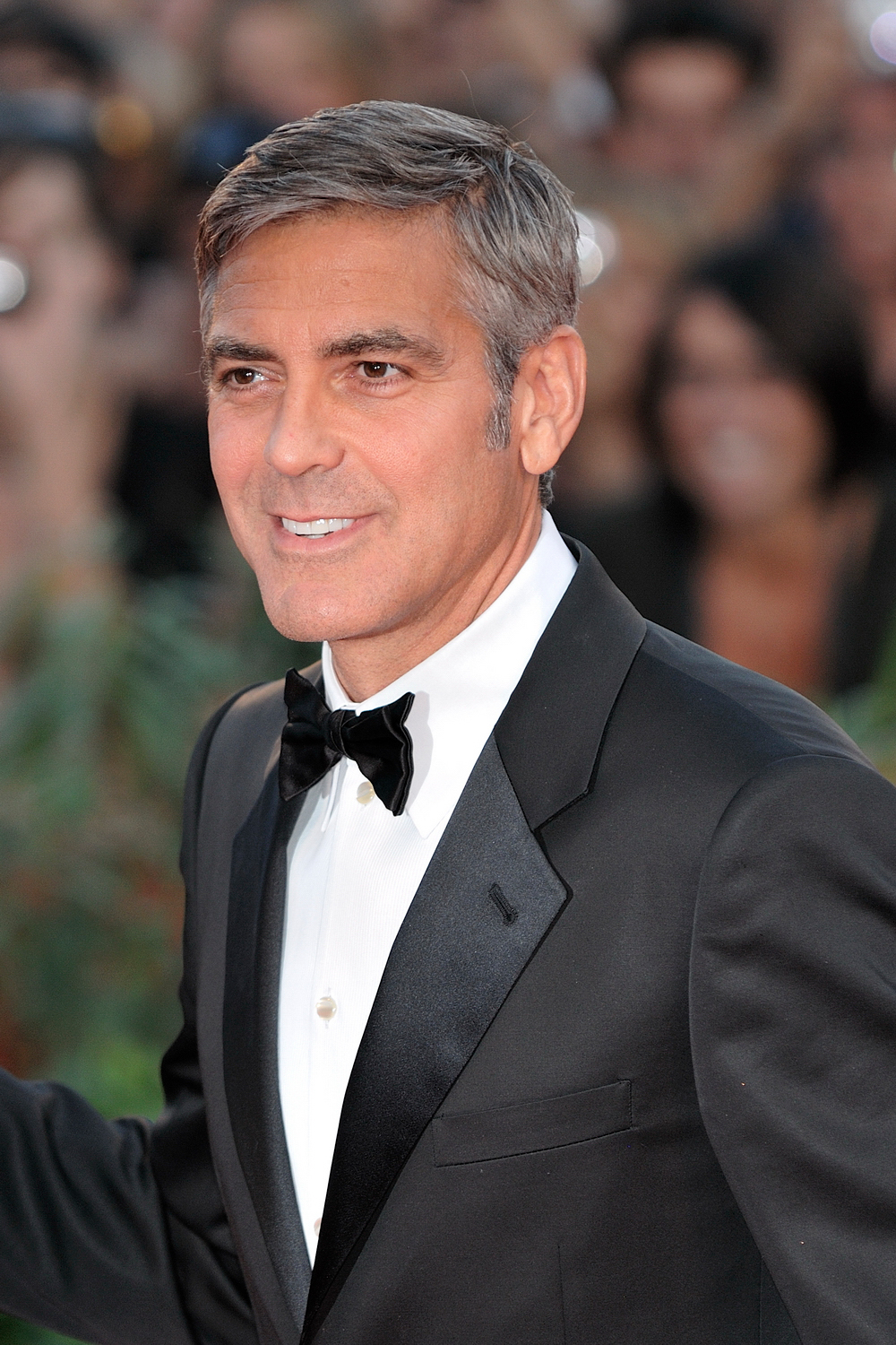 George Clooney at the 2009 Venice Film Festival